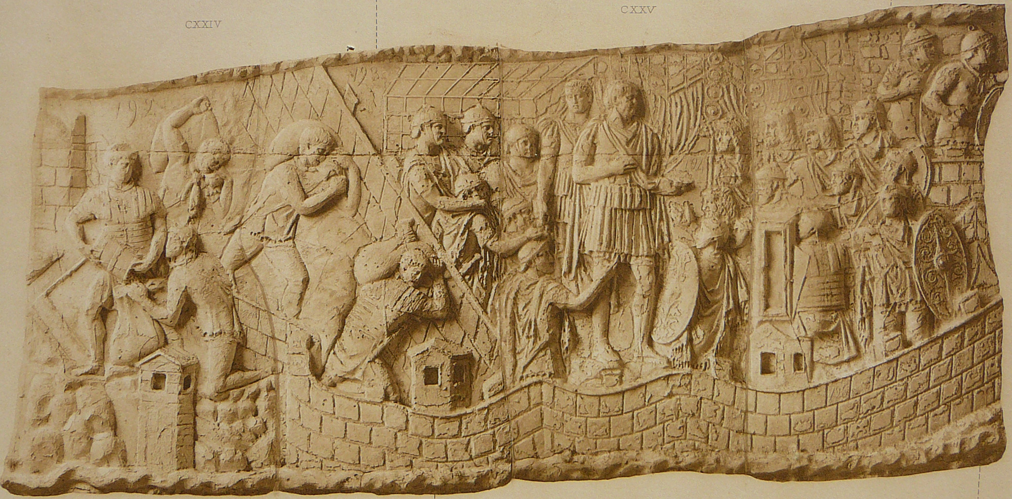 Looting by Roman troops (scene CXXIV); Trajan saluted by his troops (scene CXXV); the Roman troops march out (scene CXXVI)